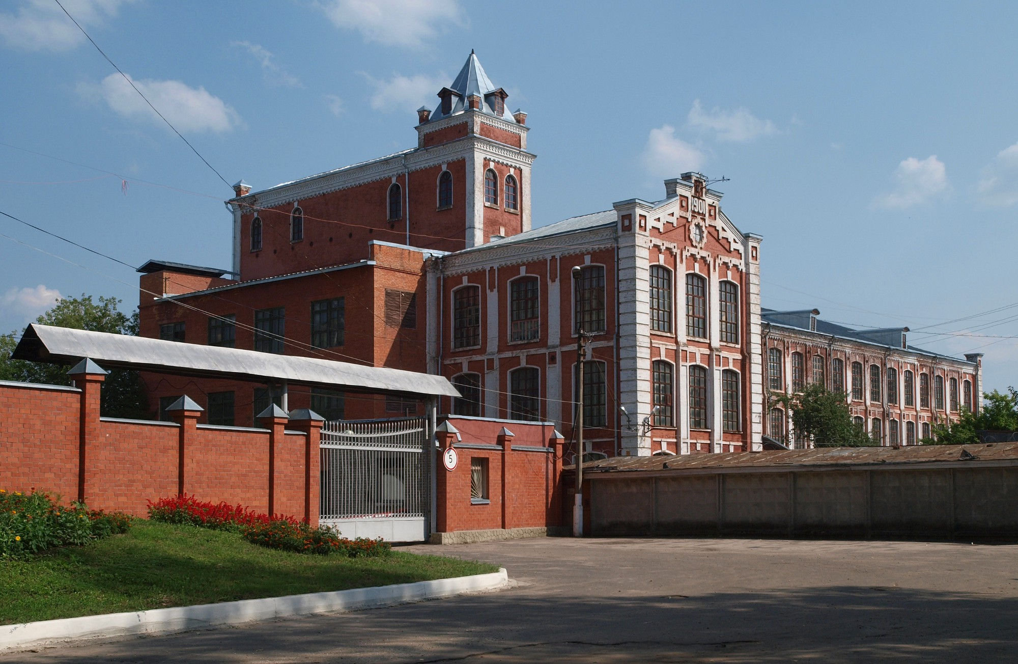 Pavlovsky Posad. The Shawl Manufactory - perhaps, the best know business in and the best known product of the town.